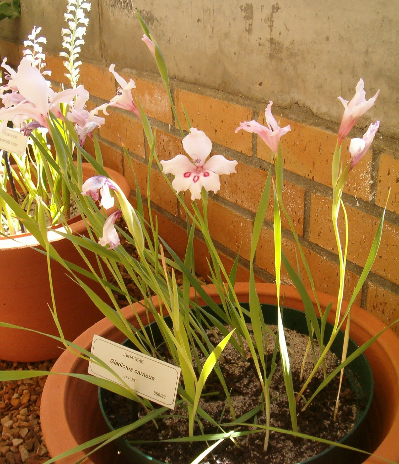 At Kirstenbosch National Botanical Gardens Species Gladiolus